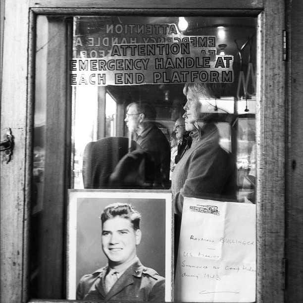 70th Anniversary Memorial Day Celebration to remember the US Armed Forces in New Zealand 1942 – 1944 Location: Memorial Site, MacKays Crossing, Queen Elizabeth Park, Paekakariki. Site of Camp Russell and Camp McKay, Paekakariki May 28, 201270th Anniversary Memorial Day Celebration to remember the US Armed Forces in NZ 1942 – 1944 #70years